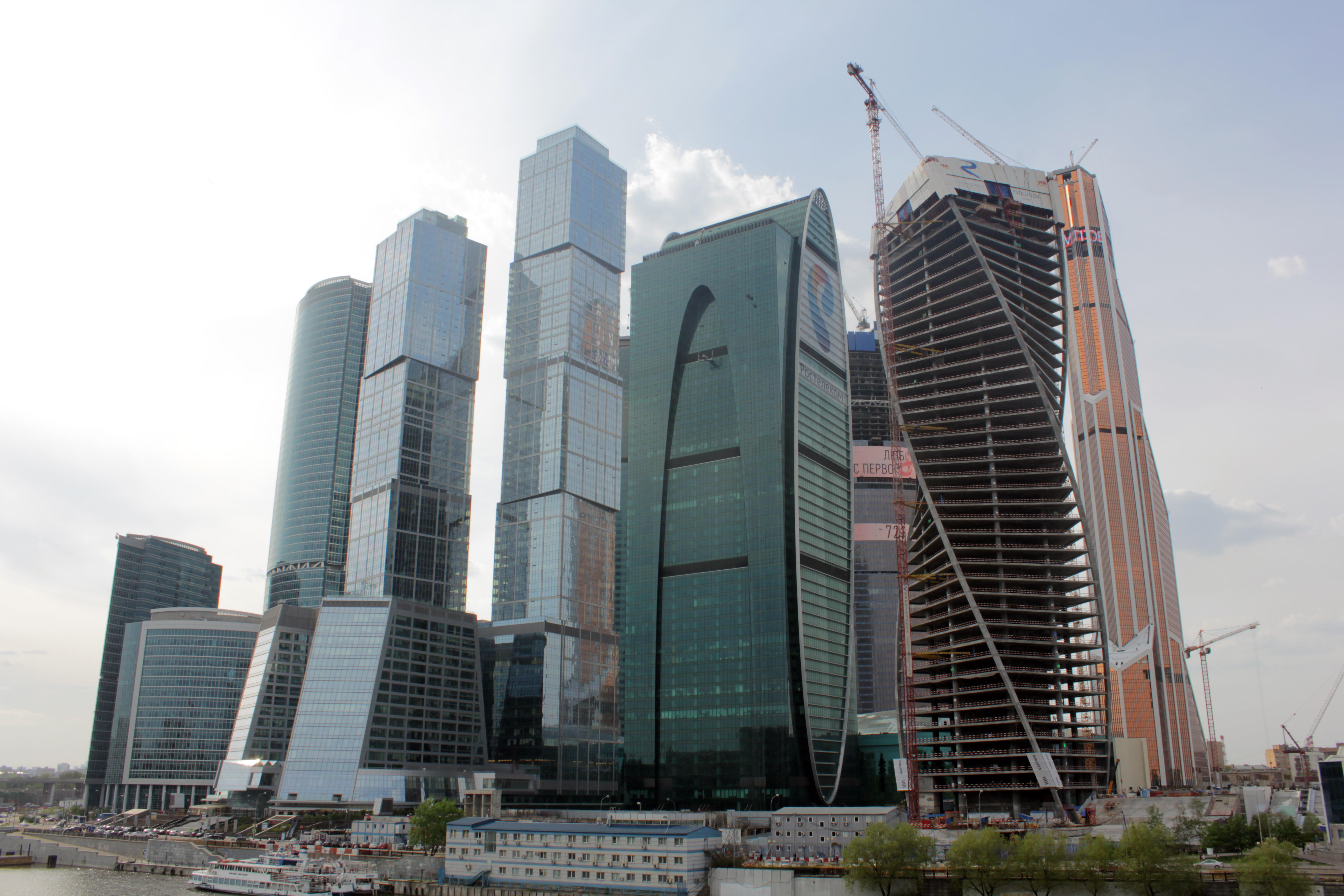 MIBC 11th May, 2013